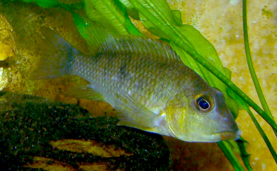 Red Hump Eartheater Geophagus steindachneri Eigenmann & Hildebrand, wild caught female, unknown location